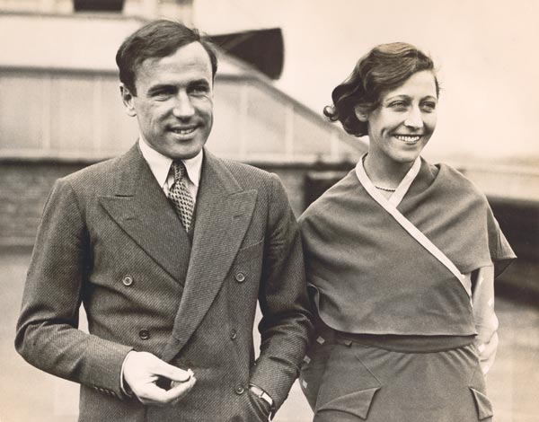 Amy Johnson Original photograph taken by an employee of the British government.